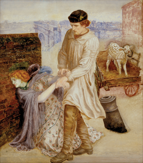 In Found, the scene is early morning light, when a man, bringing his calf to the city of London on market day, comes upon a woman collapsed by the side of the road, her face green with illness. As he goes to her aid, he recognizes her as his sweetheart of earlier (and happier days) from his country village. Rossetti hints at her fallen state by including faded roses on her dress. (see references)